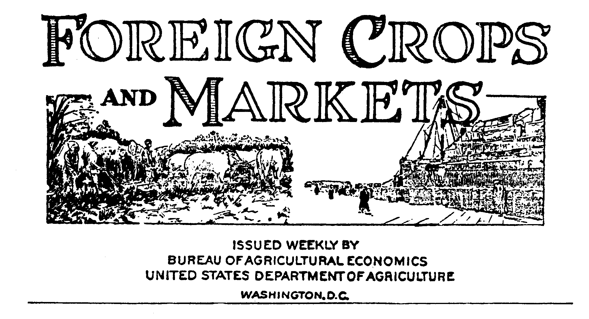 Cover art for the Foreign Crops and Markets circular published by the Bureau of Agricultural Economics, USDA, in the 1930s, copies of which are preserved in the National Agricultural Library (